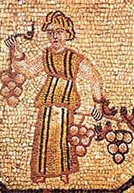 Big grapes roman mosaic